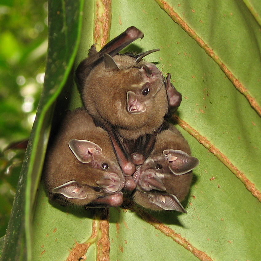 Artibeus sp. in Tortuguero Nationalpark, Costa Rica Family: Phyllostomidae; Subfamily: Stenodermatinae